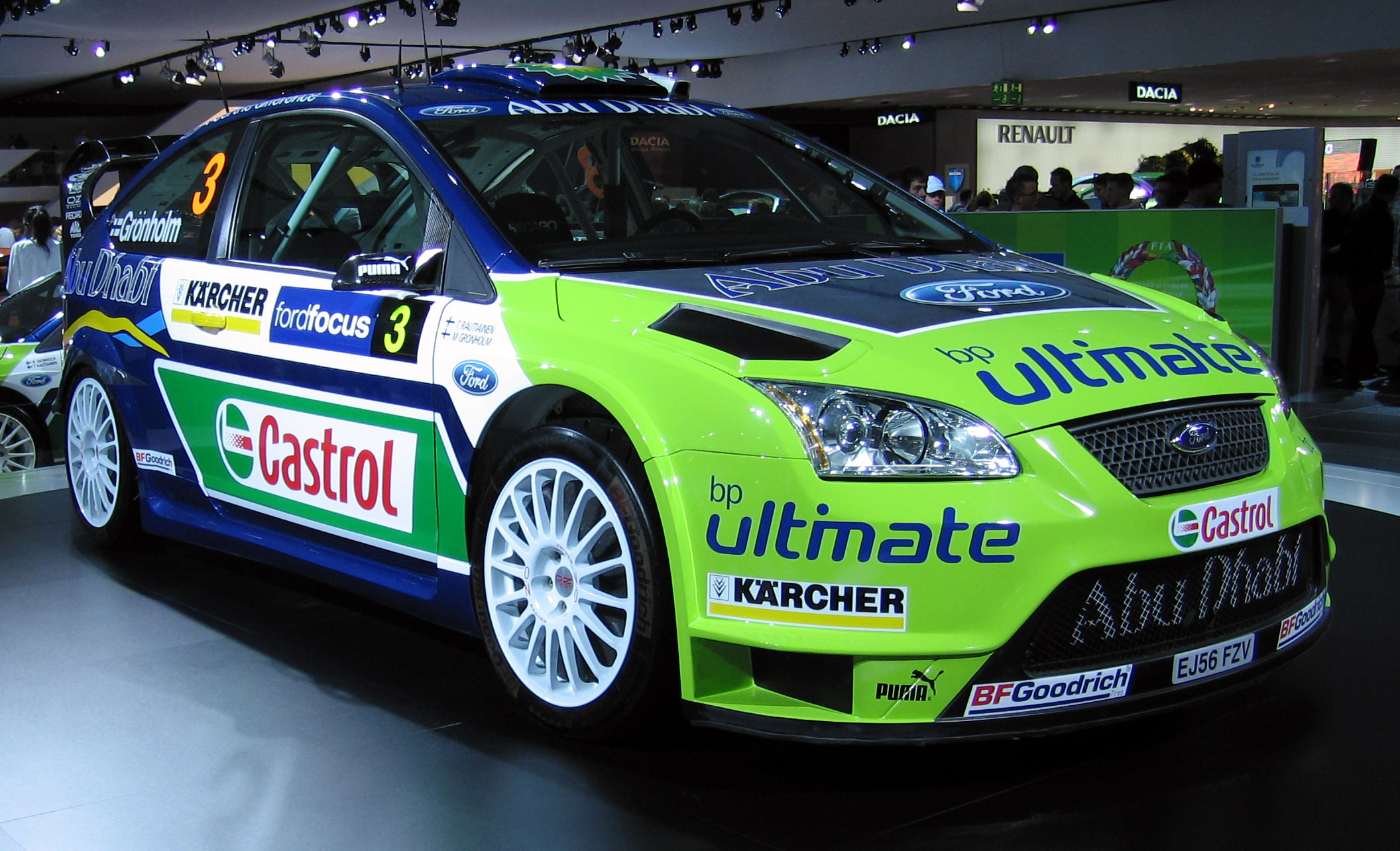 Ford Focus WRC 2006 of Gröhnholm at the IAA 2007